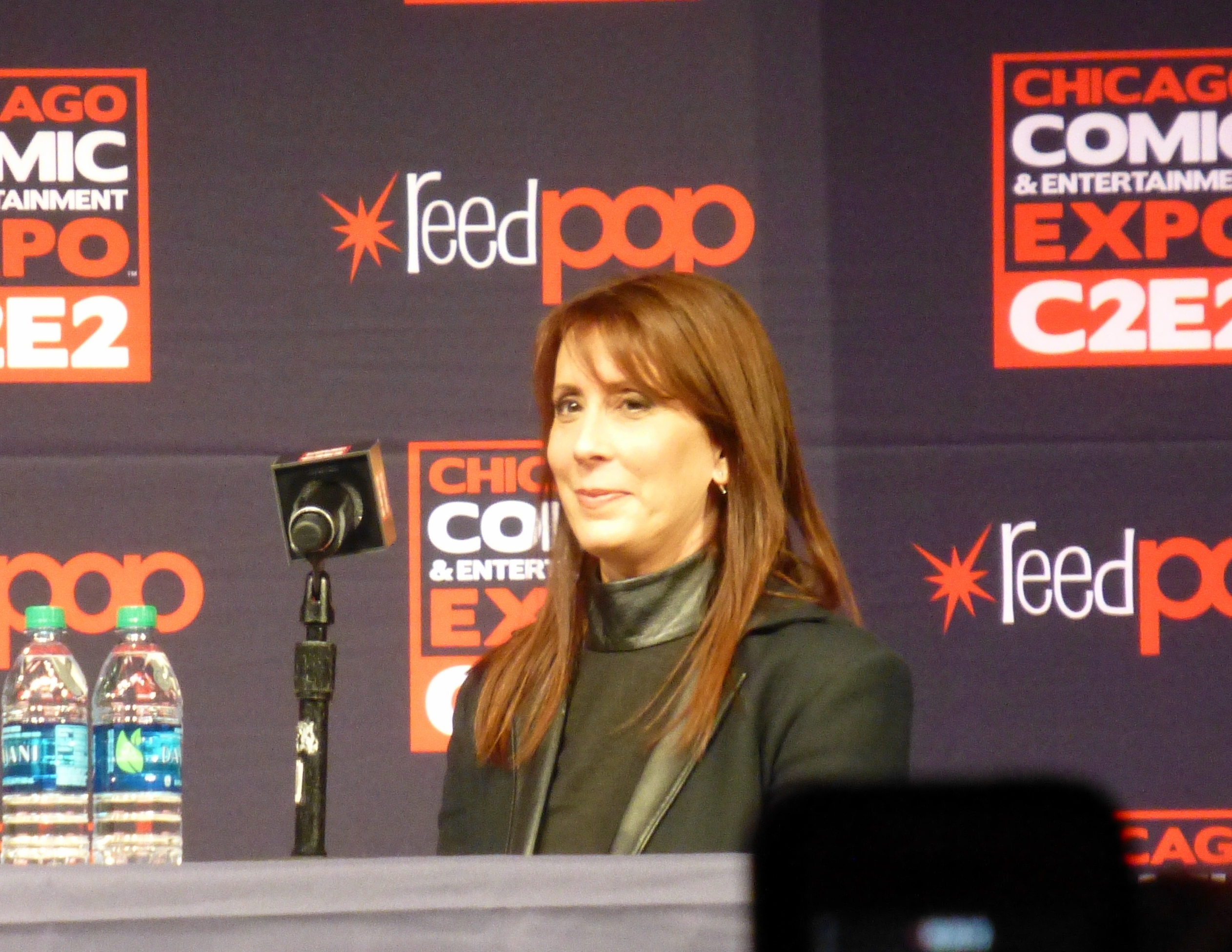 Judge Ann Foley Chicago Comic & Entertainment Expo (C2E2) 2015.